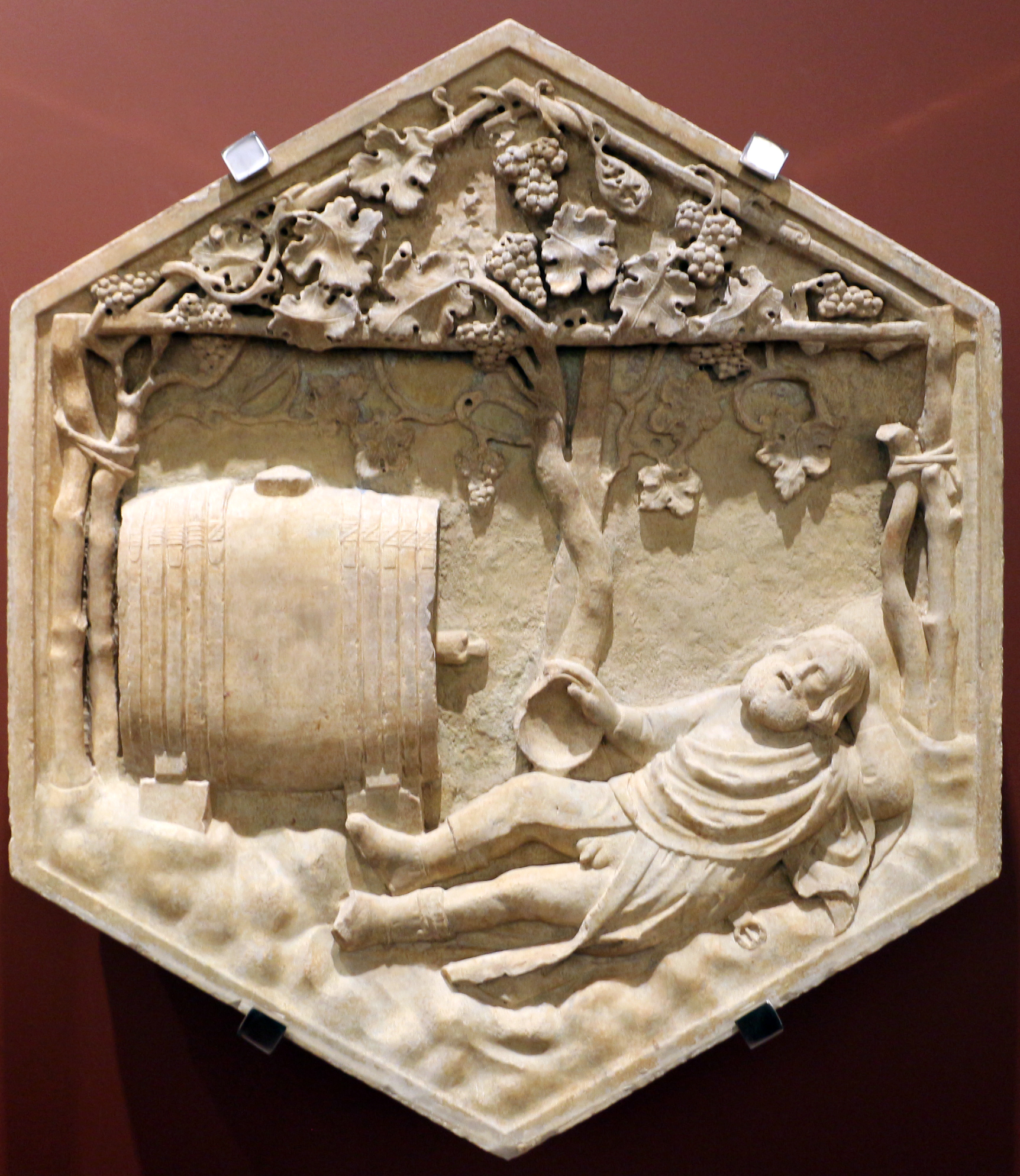 Reliefs of the Giotto's Belltower